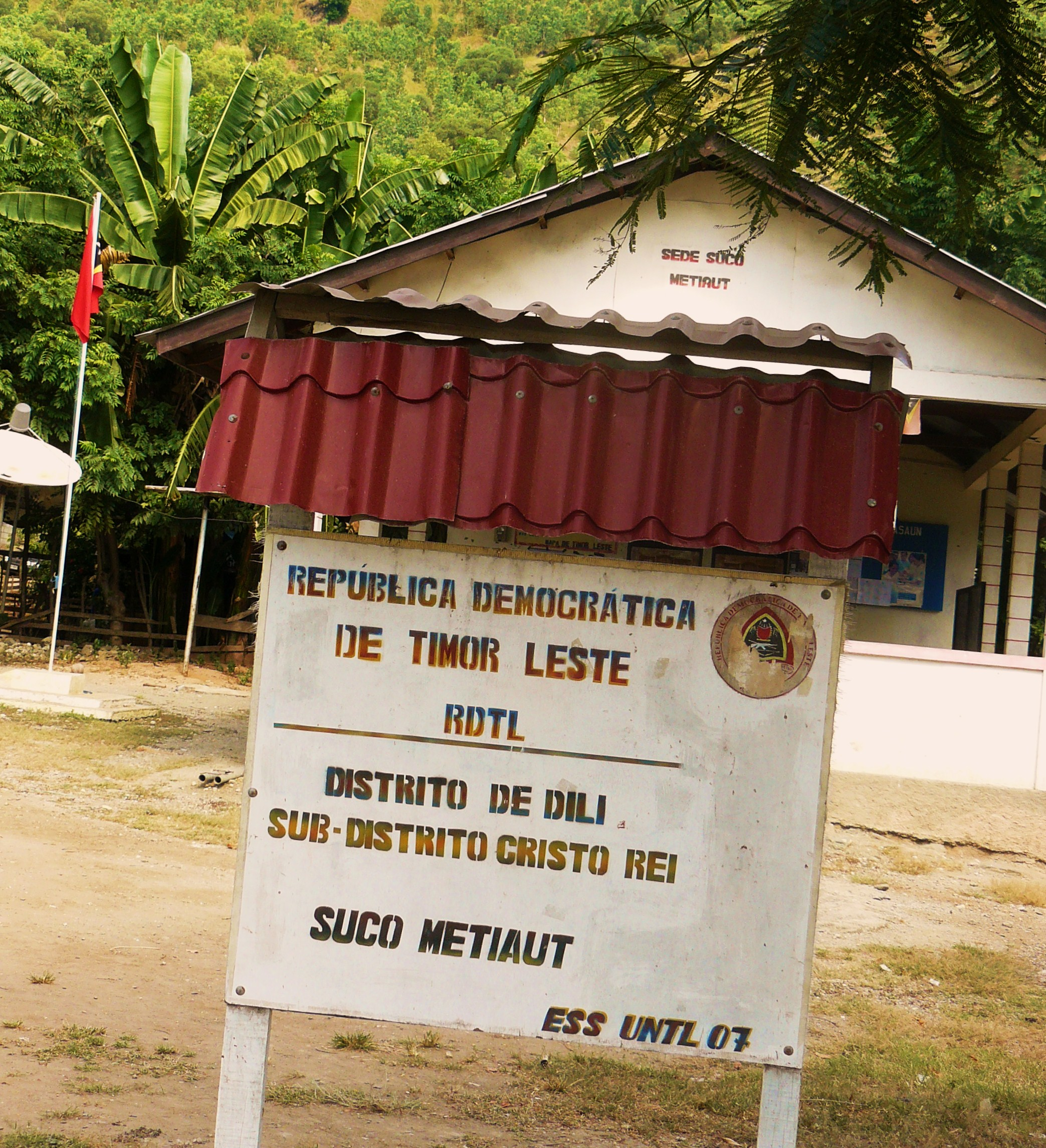 Seat of Suco Meti Aut, subdistrict Cristo Rei, district Dili, East Timor